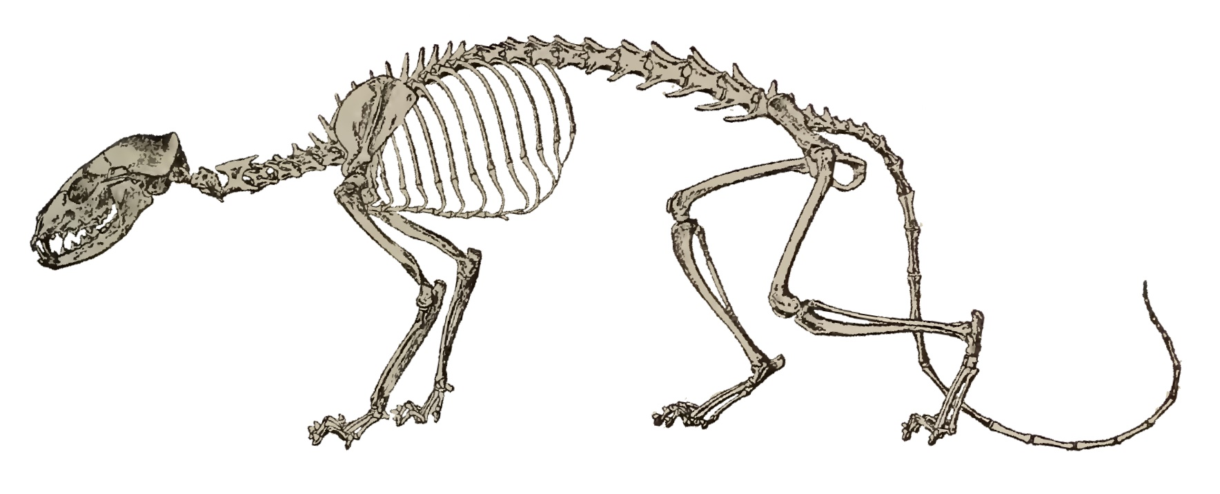 Skeleton of Hesperocyon gregarius